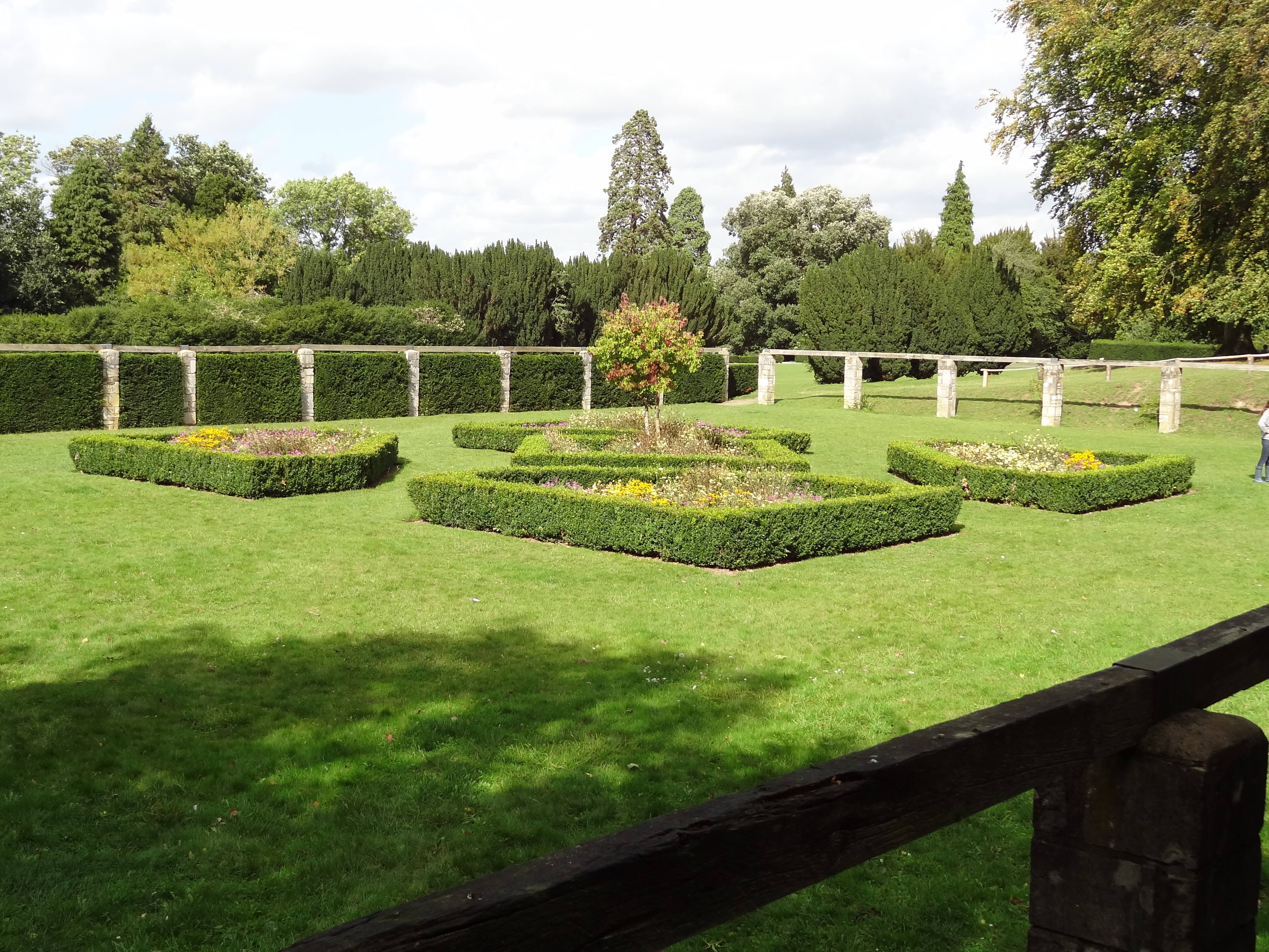 The garden in High Elms Country Park which once served as the tennis court for the adjacent mansion house.